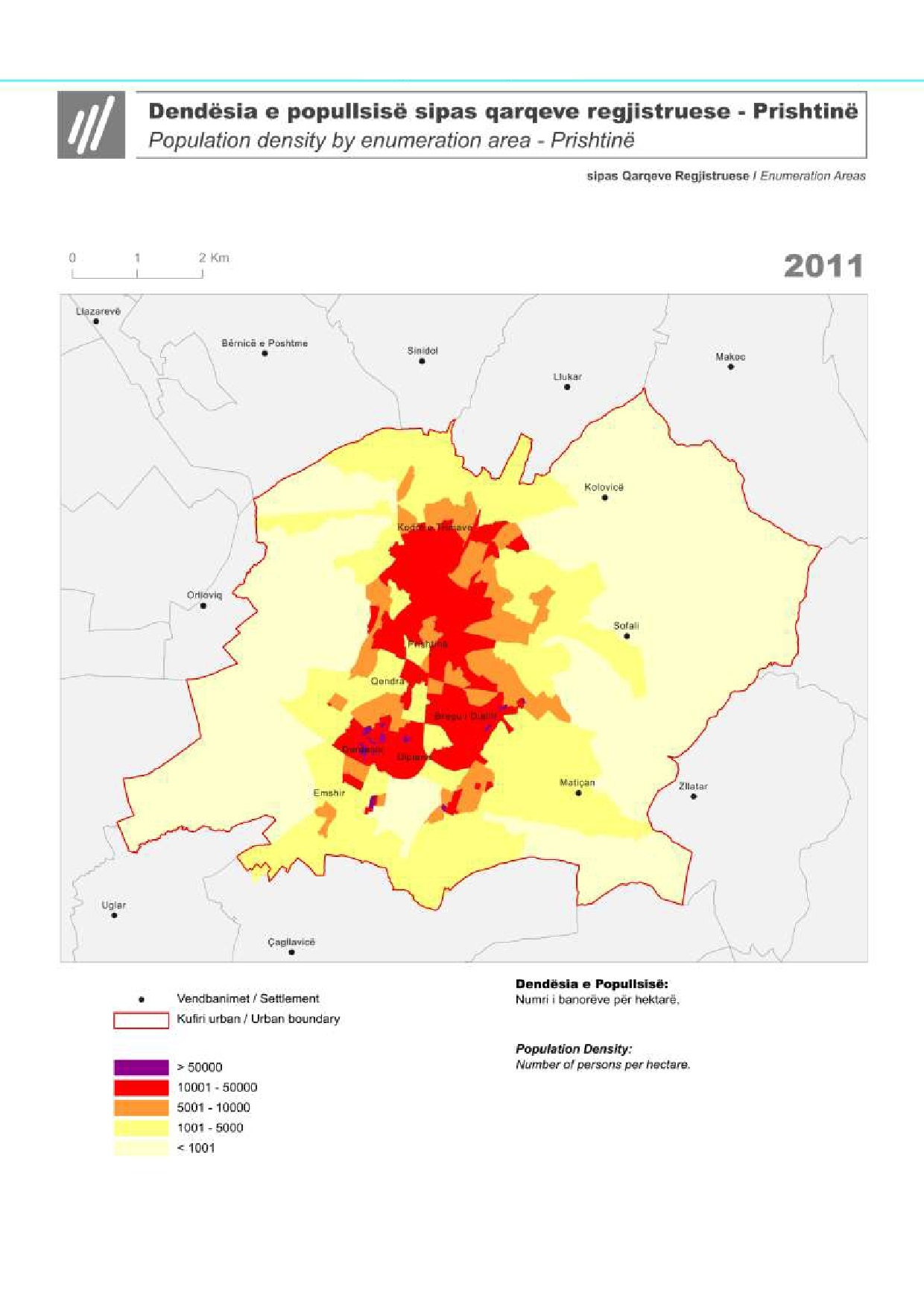 Atlasi i Regjistrimit te Popullsis 2011 Prishtine